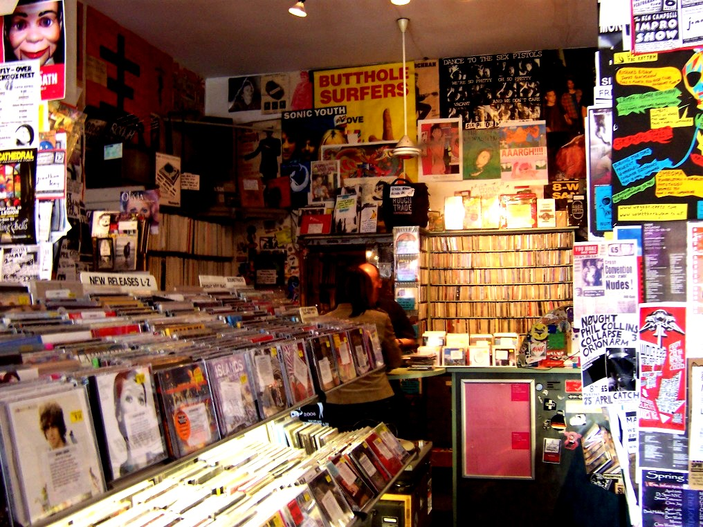 Meaghan R, flickr user: shes_electric